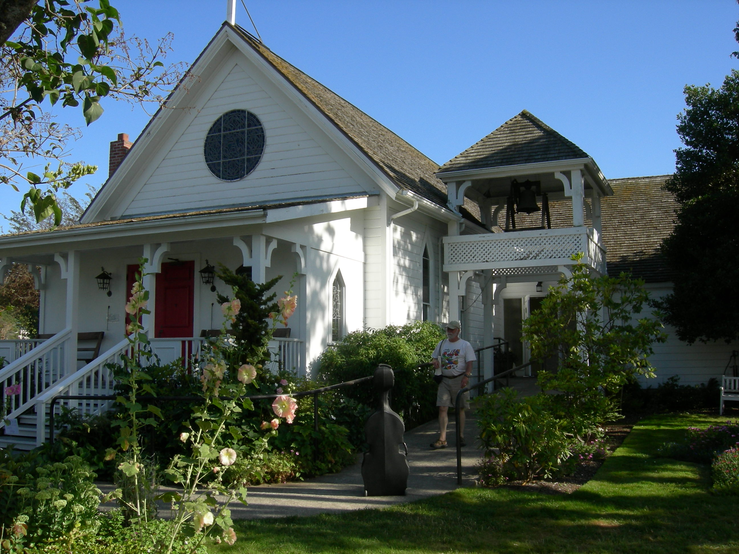 Emmanuel Episcopal Church, Eastsound, Washington, USA. National Register of Historic Places ID Number 94001431. Designed by Michael S. Donohue, constructed 1885.